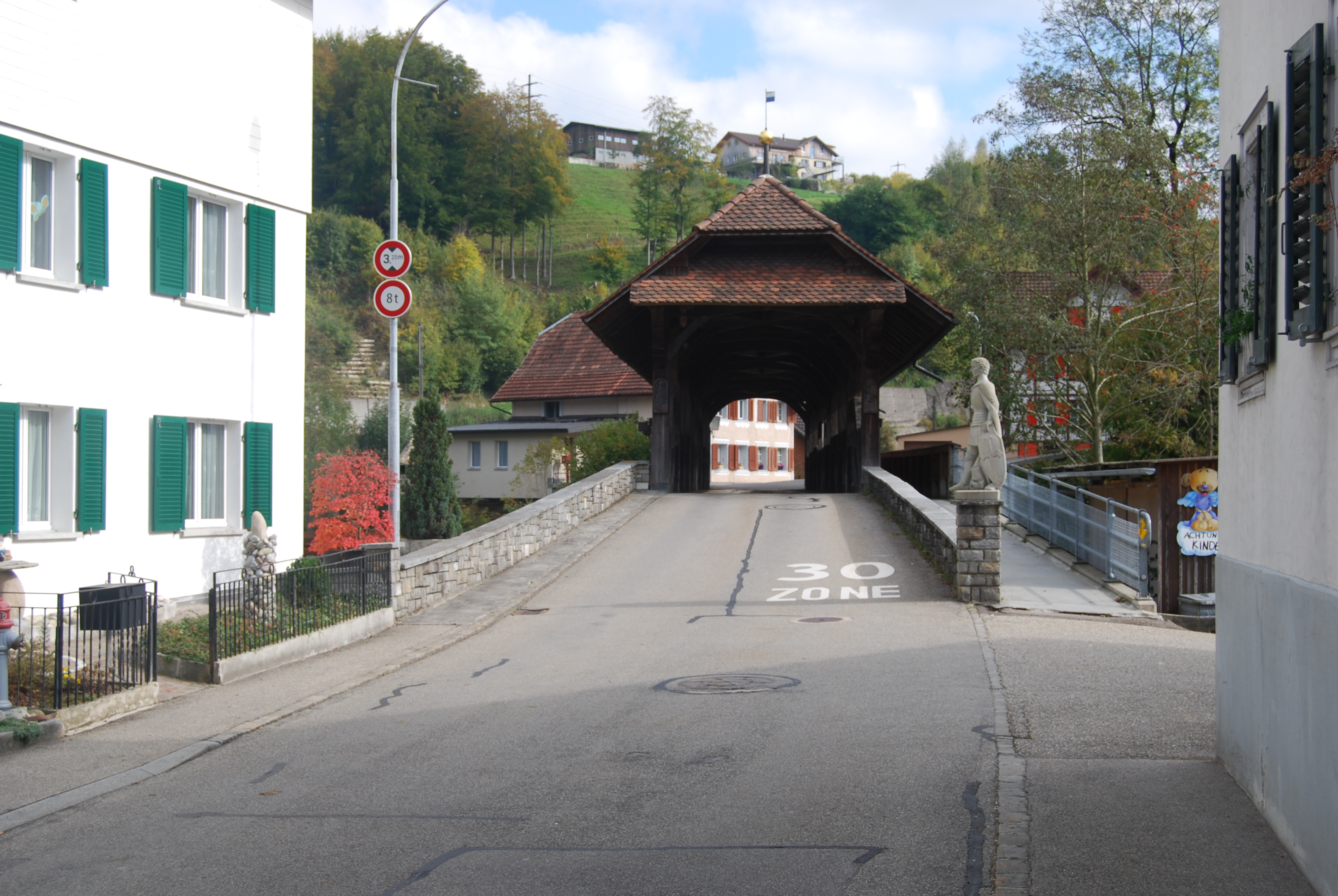 Wooden bridge over Kleine Emme at Werthenstein, canton of Luzern, SwitzerlandEsperanto: Ligna ponto trans Eta Emme en Werthenstein, Kantono Lucerno, Svislando